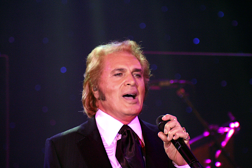 Engelbert Humperdinck Closing Night at The Orleans Las Vegas NV 6-14-2009